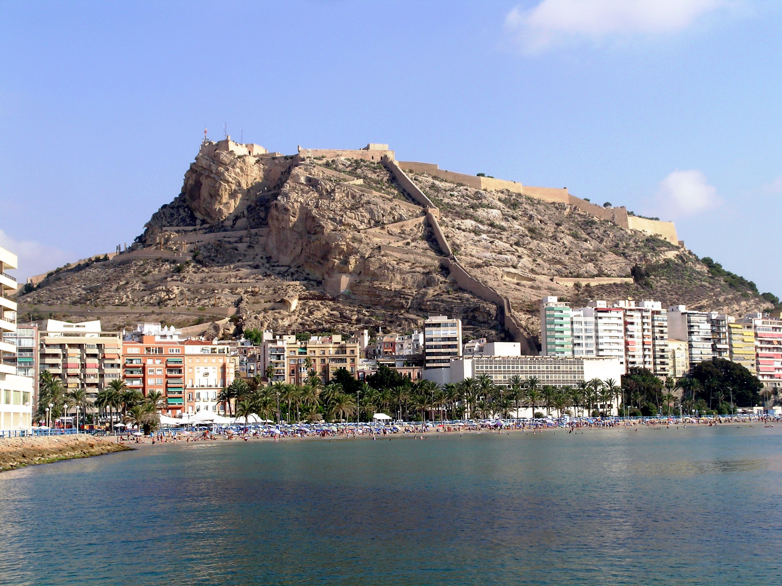 Alicante